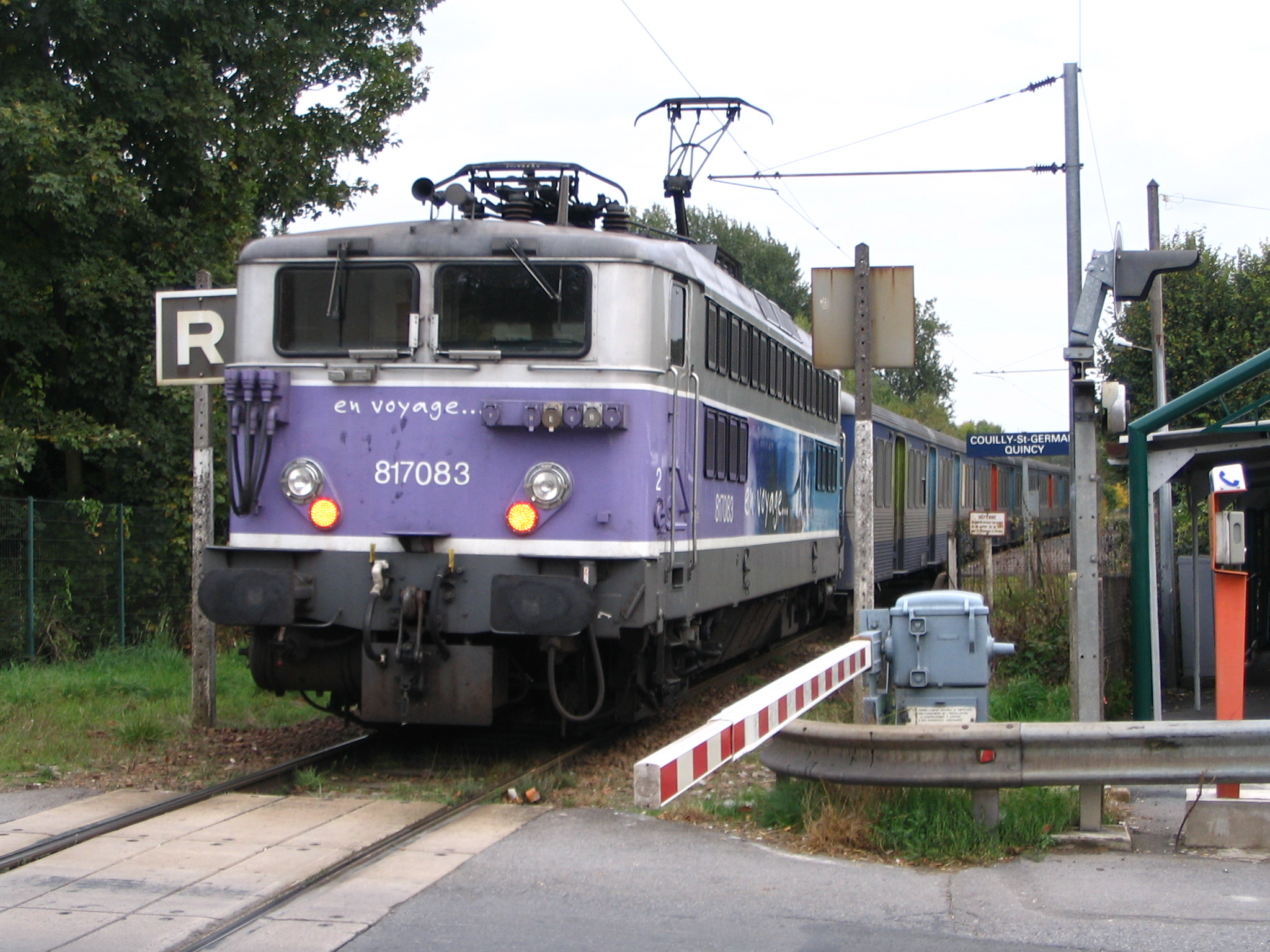 The train station of Couilly - Saint-Germain - Quincy, in Seine-et-Marne, France.